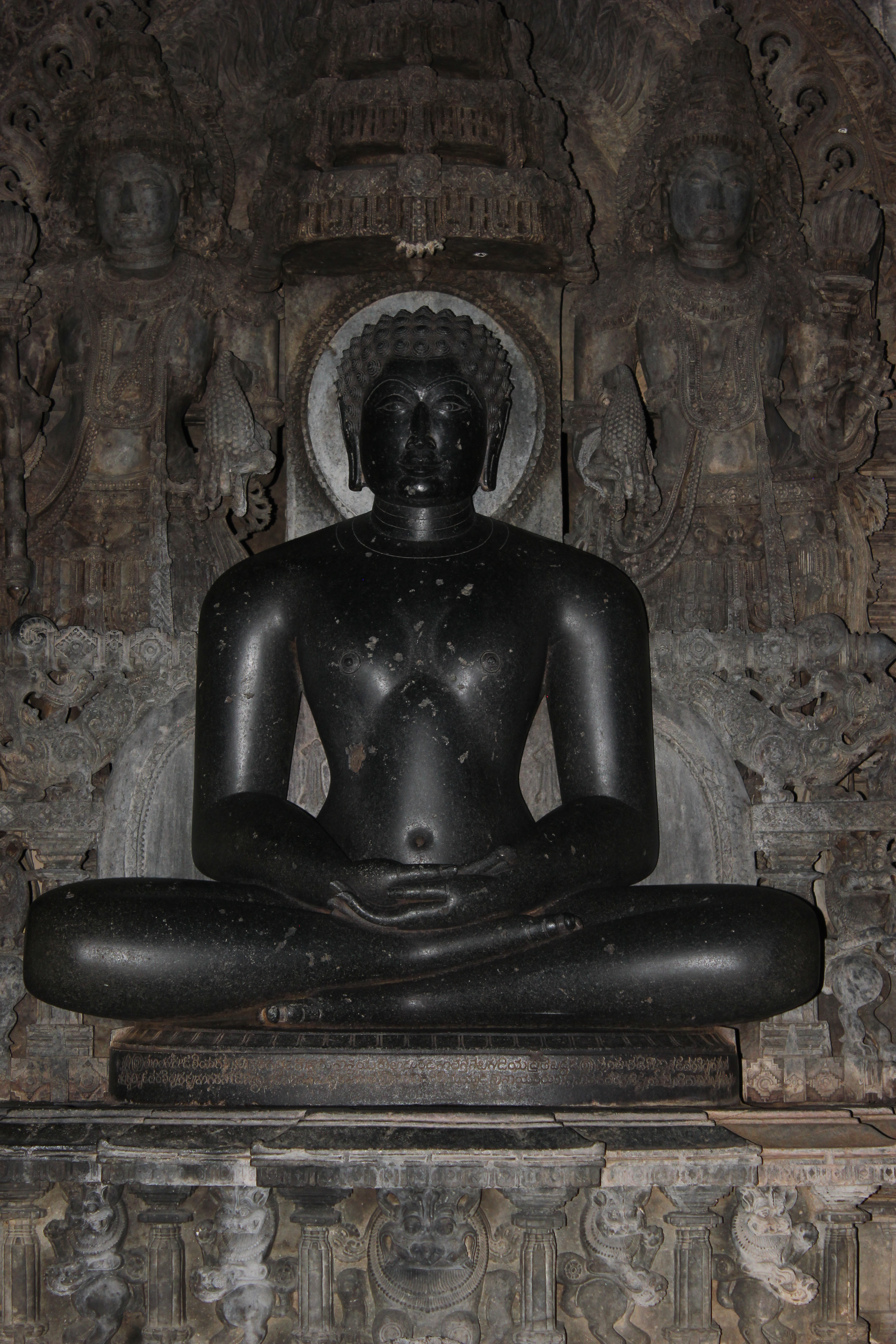 This photograph was taken by me (Dinesh Kannambadi) in the Shantinatha Basadi at Jinanathapura, Hassan district, Karnataka state, India. The Basadi was built around 1200 AD during the rule of the Hoysala Empire King Veera Ballala II. An old Kannada language inscription on the pedestal of the seated image of the Shantinatha reveals the Basadi was built by Recana, a general and minister of the king Ballala II. Source: Delbonta, Robert J (2011) "The Shantinatha Basadi at Jinanathapura, p.121" in Julia A.B. Hegewald , ed. The Jaina Heritage Distinction, Decline and Resilience - Heidelberg Series in South Asian and Comparative Studies – Volume II, ©Subrata Mitra,, Samskriti ISBN: 978-81-87374-67-1.